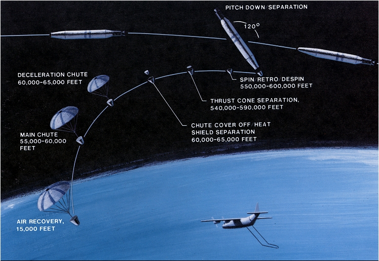 An illustration of the recovery maneuvar used to capture the CORONA film-return bucket.